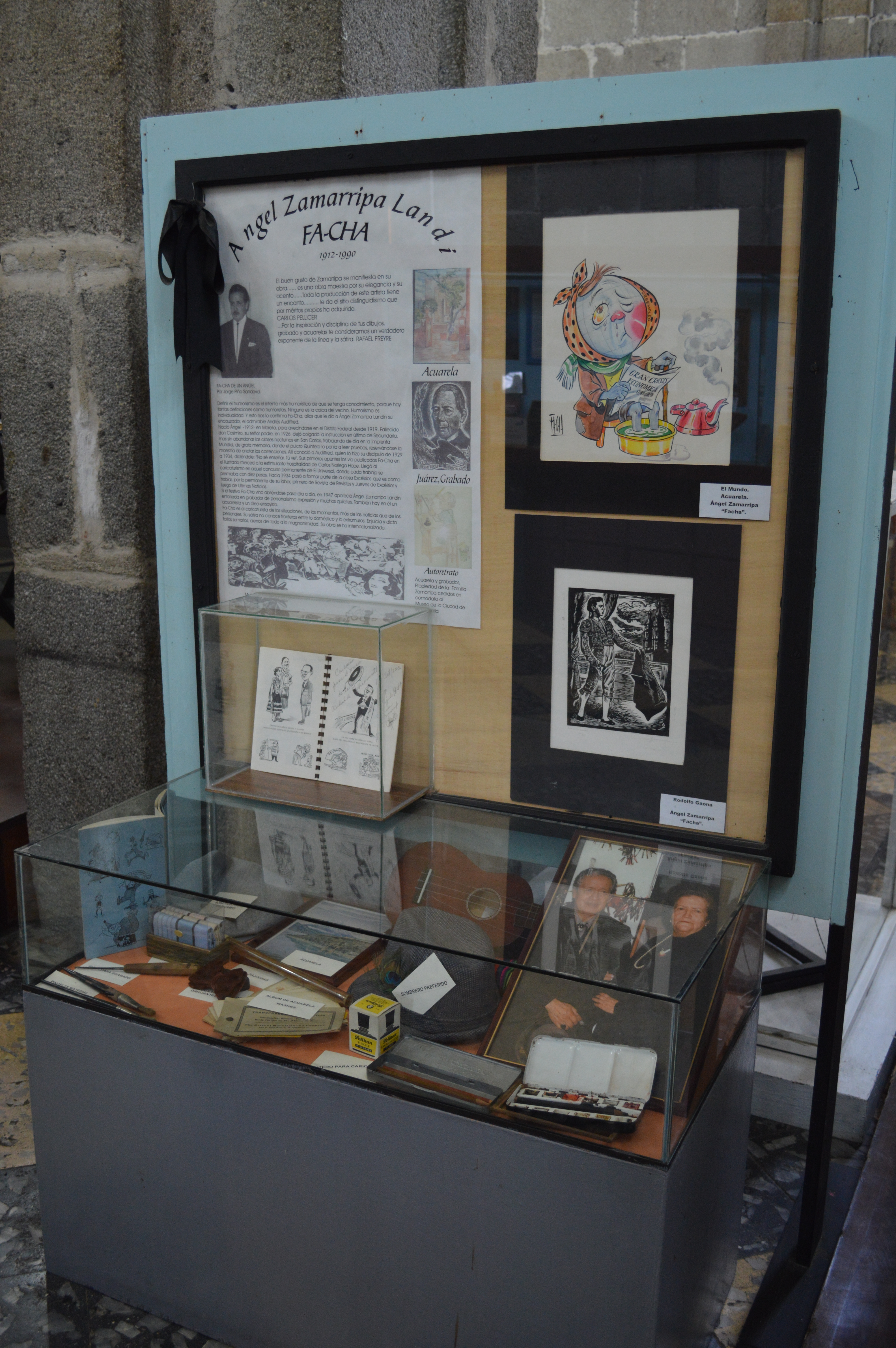 Display in honor of Angel Zamarripa at the City Museum in Huamantla, Tlaxcala, Mexico